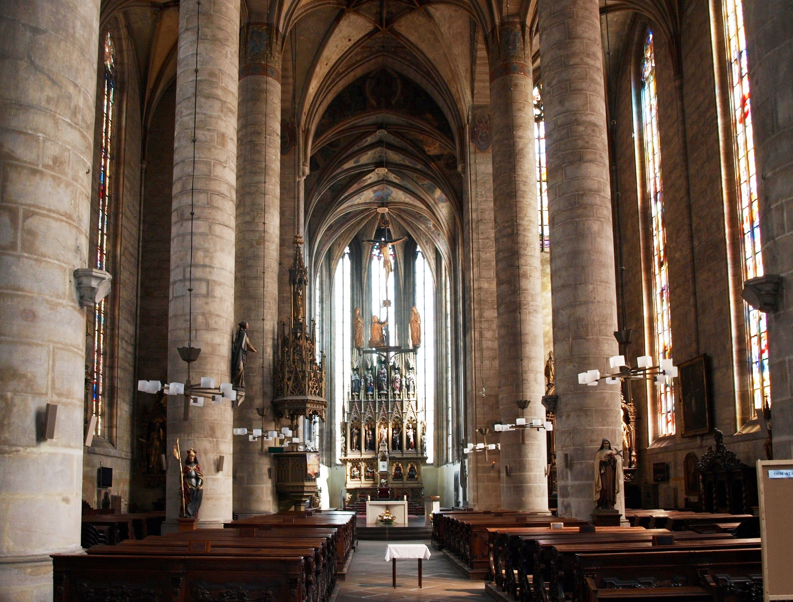 Saint Bartholomew Cathedral, Plzen